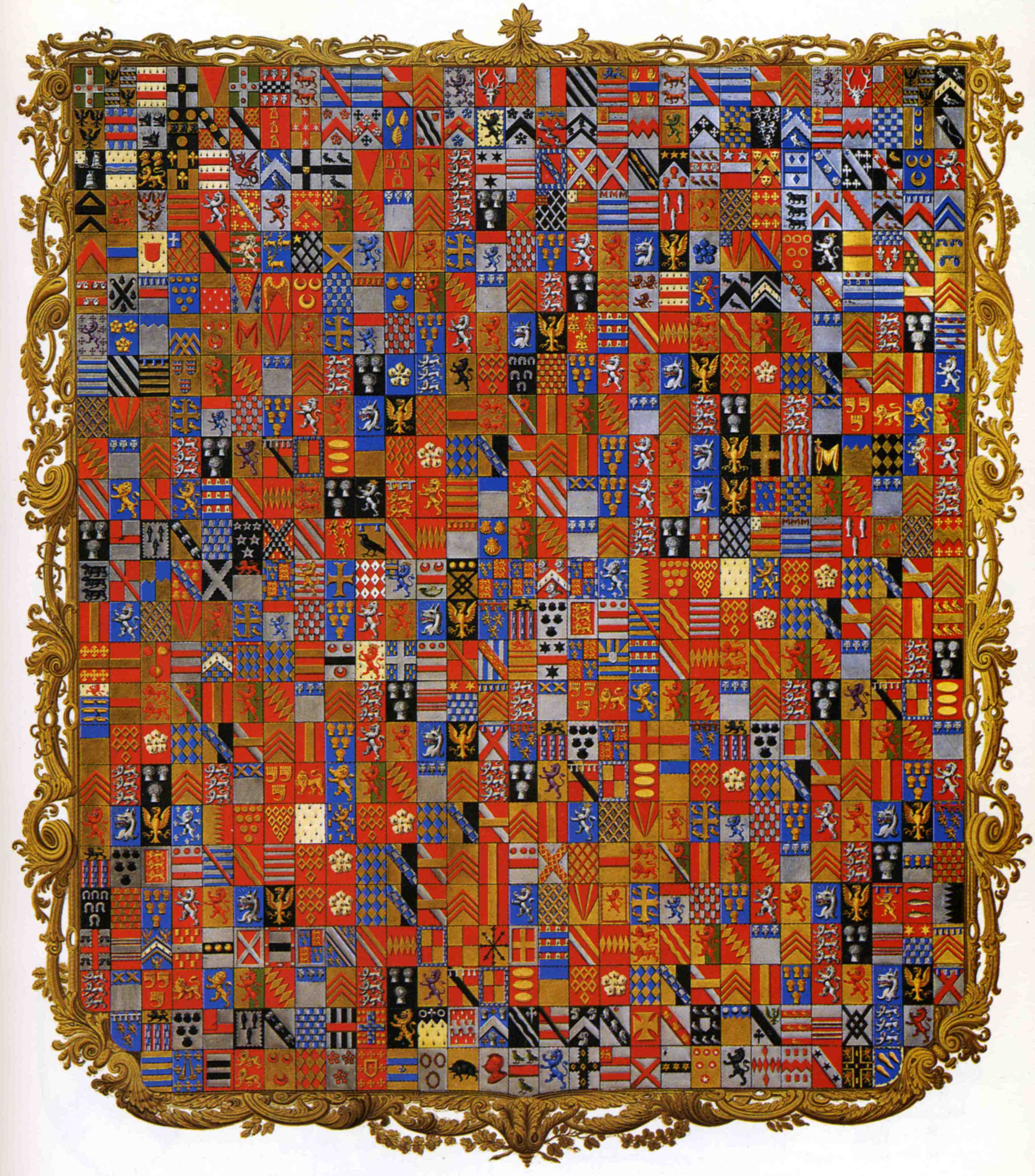 The Stowe Armorial coat of arms is the centrepiece of the Gothic Library at Stowe [1]. The Library was commissioned by George Nugent-Temple-Grenville, 1st Marquess of Buckingham (See Viscount Cobham [2]), and built to a design by Sir John Soane [3] between 1805 and 1807. The armorial is a 1.4m diameter heraldic painting of the 719 quarterings of the Temple, Nugent, Brydges, Chandos and Grenville families, including ten variations of the English Royal arms, the arms of Spencer, De Clare, Valence, Mowbray, Mortimer and De Grey. The painting is signed and dated P. Sonard 1806. [1]